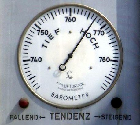 Dial showing pressure in millimeters of quicksilver